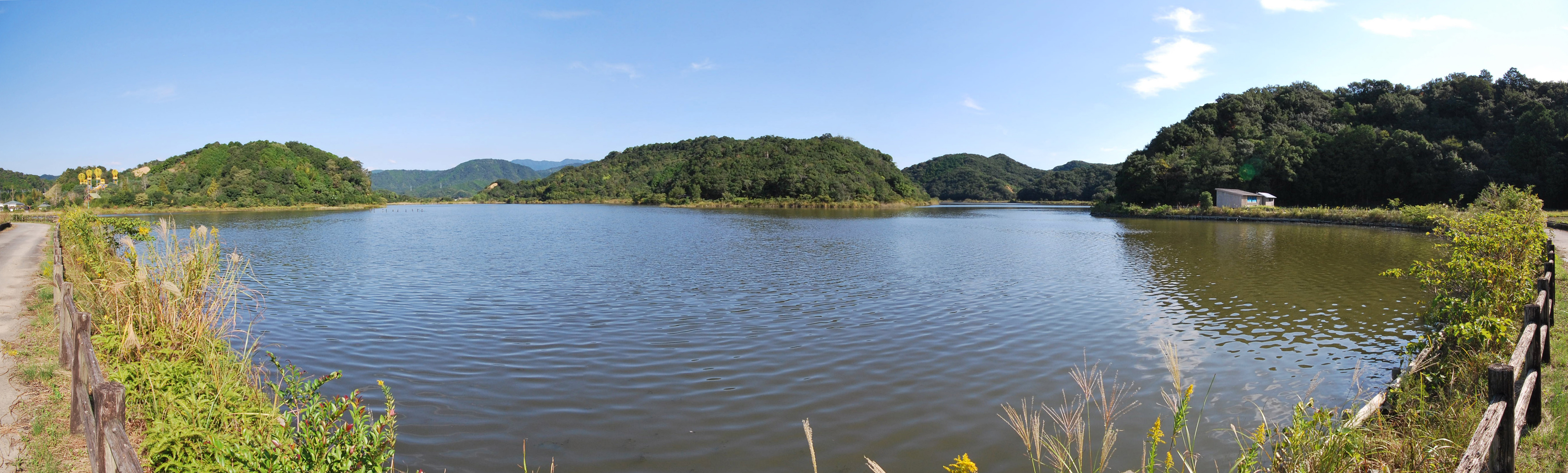 Ebi-ga-ike Pond panorama photo from south side